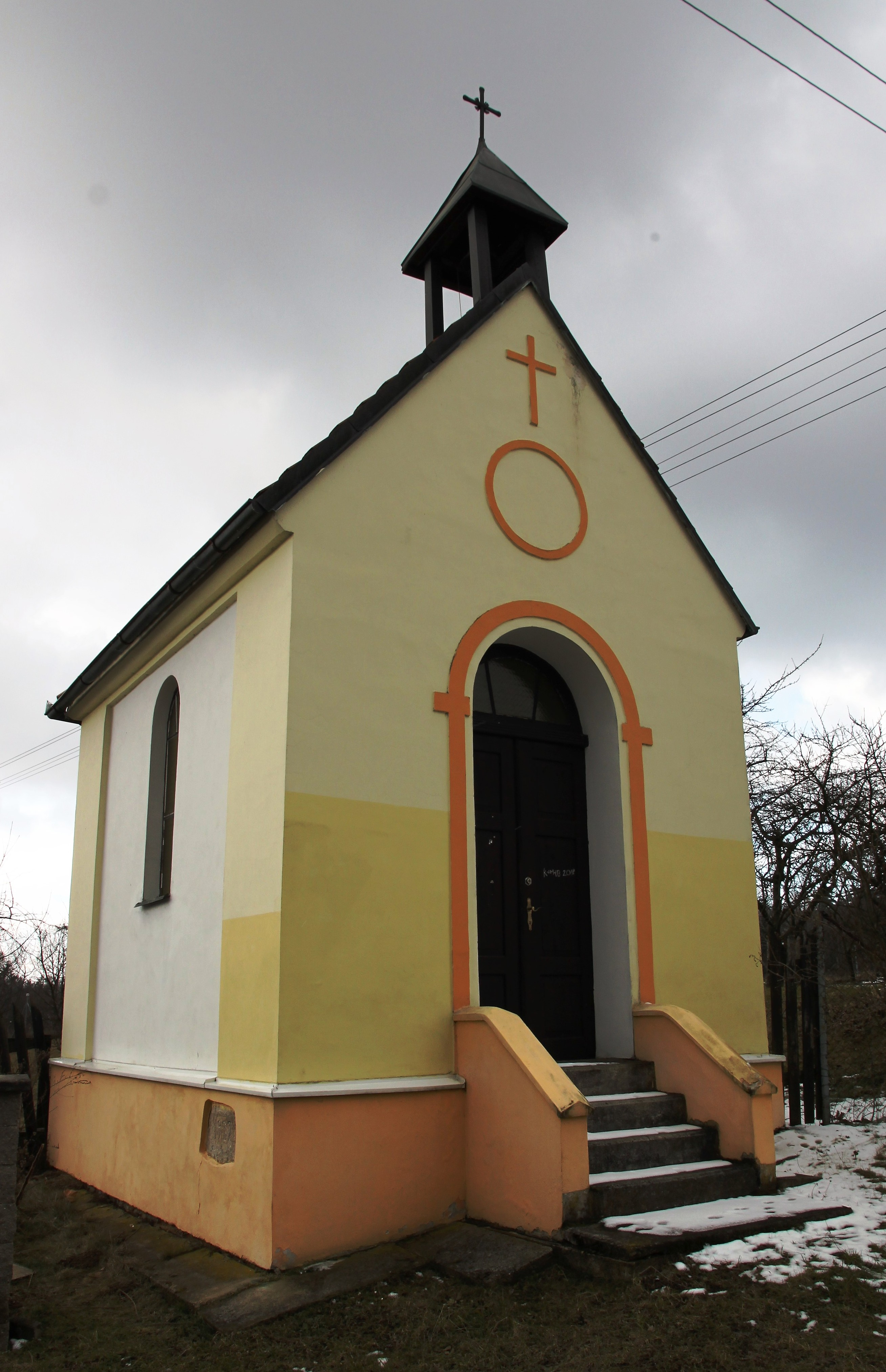 Chapel of Our Lady and St. Anthony from 1927–1928 in the village of Malé Dubičné, České Budějovice District, Czechia